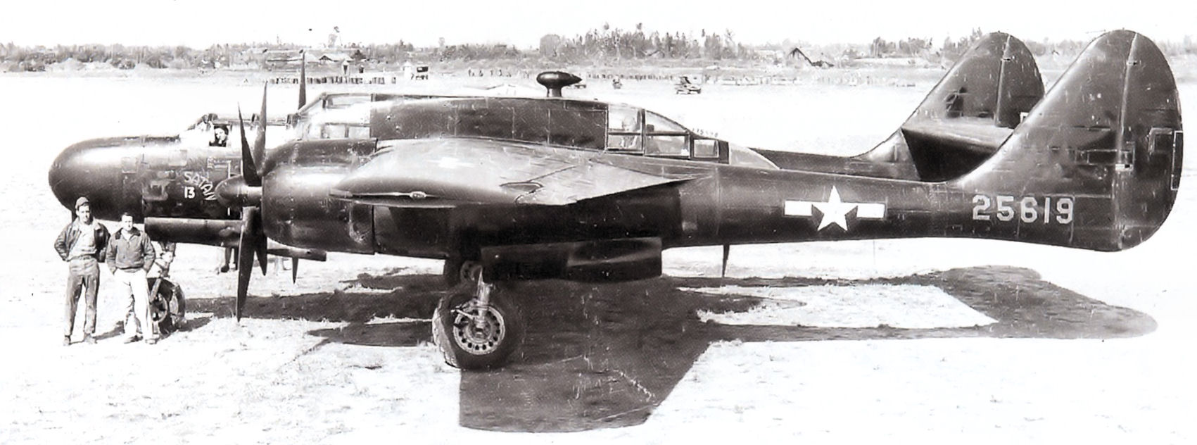 426th Night Fighter Squadron Northrop P-61A-10-NO Black Widow 42-5619 Satan 16, taken at one of the squadron's forward bases in China. Aircraft on excess inventory list Oct 20, 1945